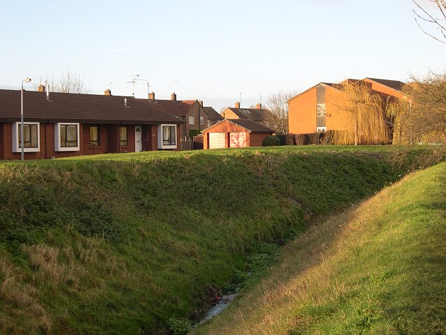 Modern Housing Estate by The Car Dyke. For more about The Car Dyke see 97021.